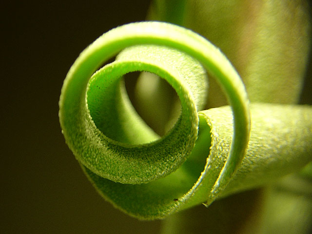 Tillandsia streptophylla, fam. Bromeliaceae. The leaves roll up when summer is comming.